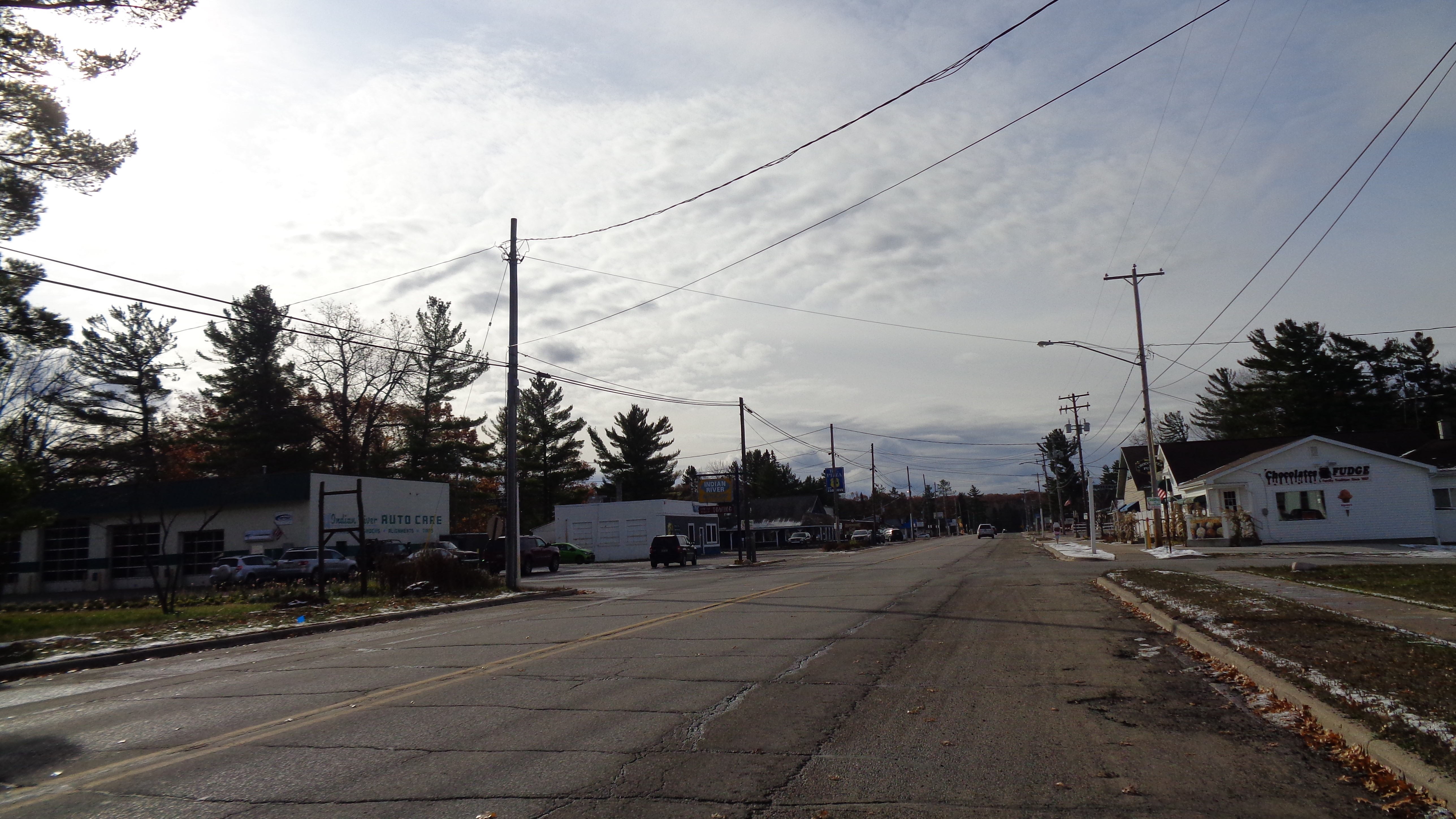 Depicted place: Indian River